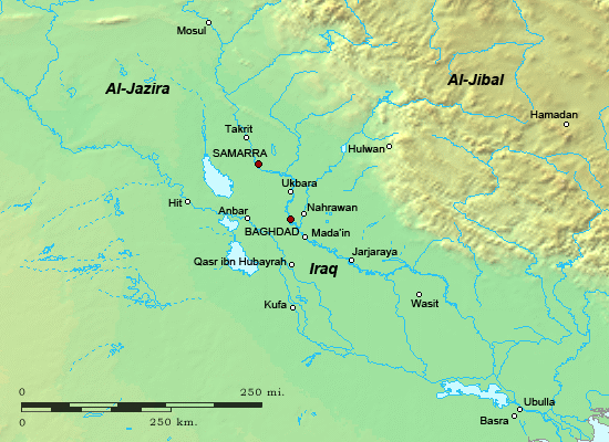 Map of Iraq and surrounding regions in the mid-ninth century AD. Derived principally from Le Strange, pp. 24 ff. & Map II; and al-Tabari, volumes 30-37, passim. Works cited: Le Strange, Guy. The Lands of the Eastern Caliphate: Mesopotamia, Persia, and Central Asia, from the Moslem conquest to the time of Timur. Cambridge: Cambridge University Press, 1905. Al-Tabari, Abu Ja'far Muhammad ibn Jarir. The History of al-Tabari. Ed. Ehsan Yar-Shater. 40 vols. Albany, NY: State University of New York Press, 1985-2007. Background topography comes from the following file: This map was created for the article